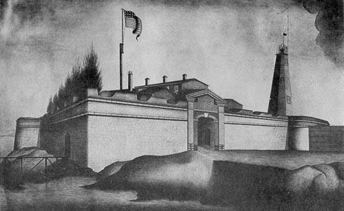 Fort William and Mary rebuilt as Fort Constitution, New Castle, NH.